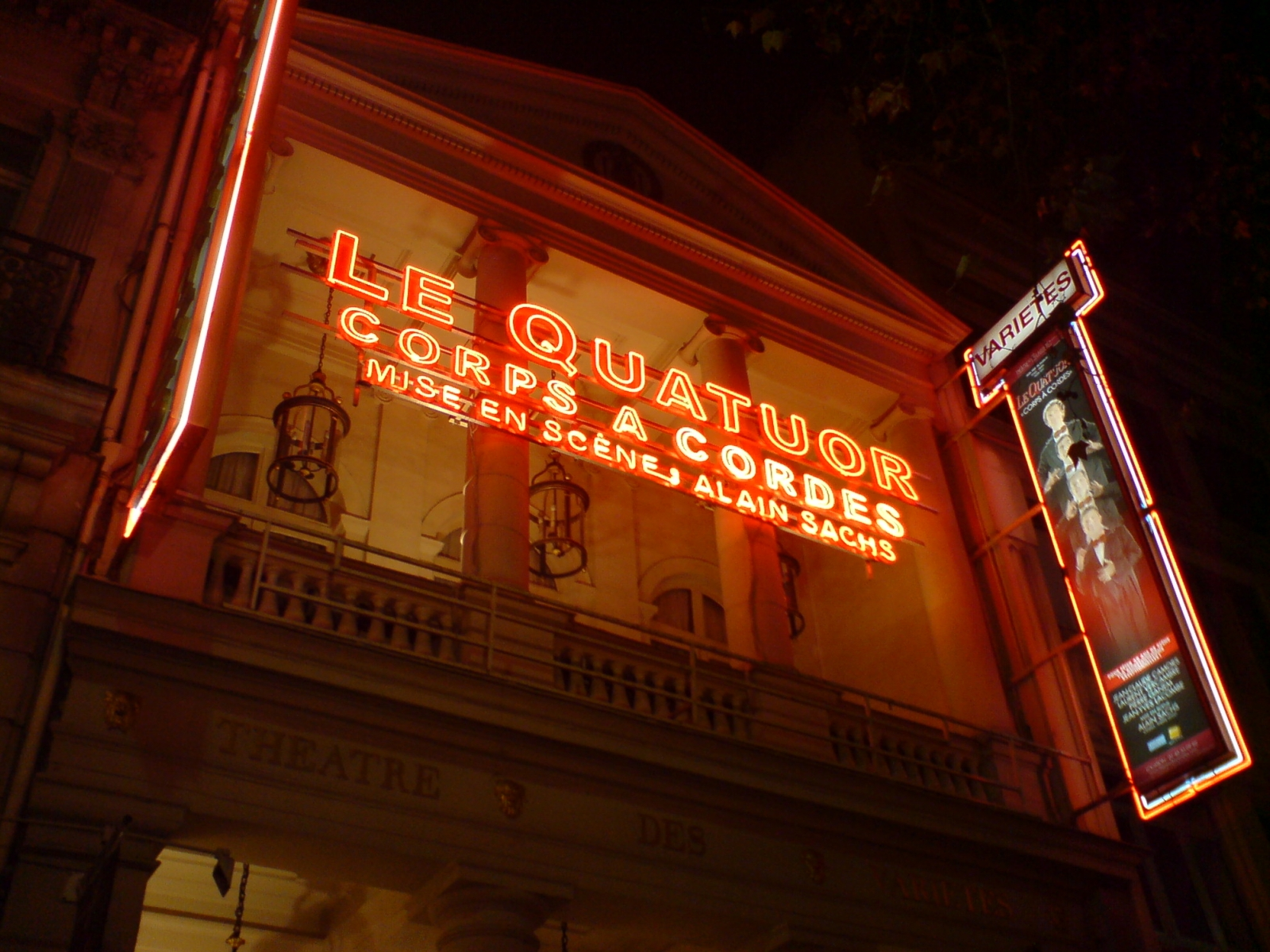 The neon signage on the Théâtre des Variétés in Paris, France. Advertising Le Quatuor.